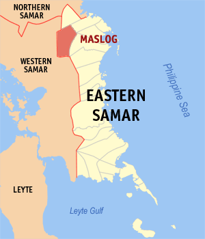 Map of Eastern Samar showing the location of Maslog